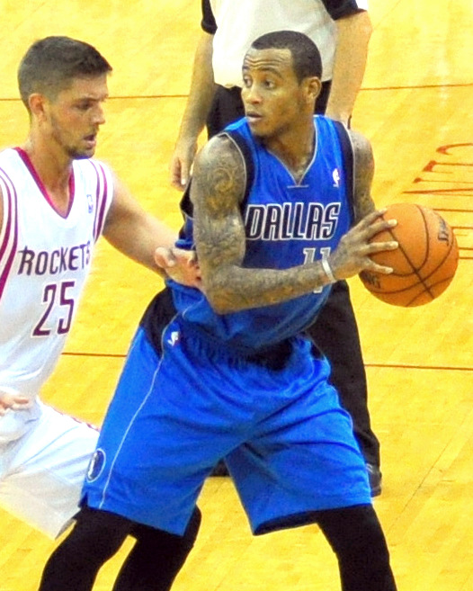 Monta Ellis of the Dallas Mavericks is guarded by Chandler Parsons of the Houston Rockets during an NBA basketball game, Nov. 1, 2013, at the Toyota Center in Houston, Texas.